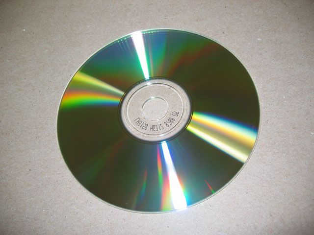 Reverse of a Memorex 48x 700MB CD-R. Photo by Dante Alighieri